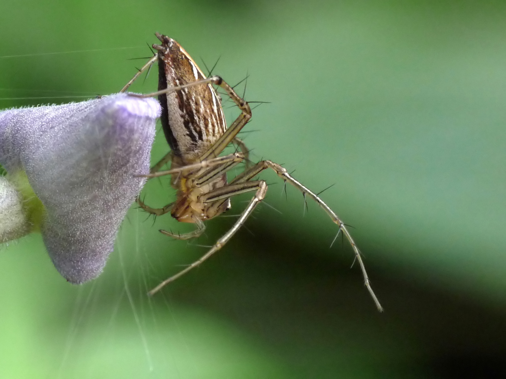 Oxyopes birmanicus, Brown Lynx Spider, is a Lynx spider in found in the shrubs in gardens and secondary forests of South Asia. Properties: Carapace is round from front with hexagonally arranged eyes. A thin black straight line starts from each of the anterior median eyes, down the vertical face, and continues on down the centre of the long, pale chelicerae at the tip. The abdomen is long and thins. The legs are extremely spiny. There are black vertical bands along the side of the abdomen.